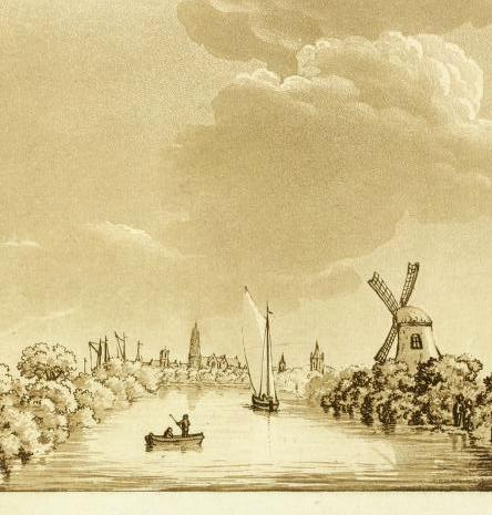 "Entrance to Delft from Rotterdam". View from the waterway from Rotterdam to Delft. Church spire, windmill, boats.